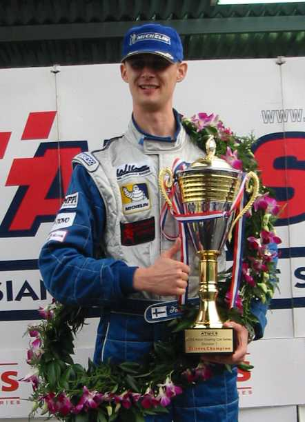 2002 Asian Touring Car Champion, Finnish driver Toni Ruokonen on the podium.